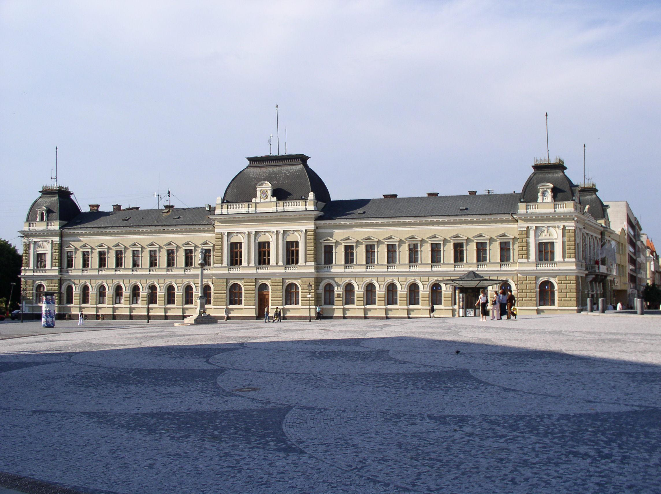 Svätopluk's Square which is named after, of course, the Slovak prince (and later king) of Nitra, Svätopluk. The Town House in the center houses the Museum and the Tourist Information Office. The museum holds the largest collection of Great Moravian artifacts in the world and its main attractions are the Blatnica Sword, "Stone throne of Great Moravia," diadem of Nitra, jewelry from Ducove, double cross found in Velka Maca, paintings of Great Moravia, etc... This medium shows the protected monument with the number 403-1476/0 (other) in the Slovak Republic.